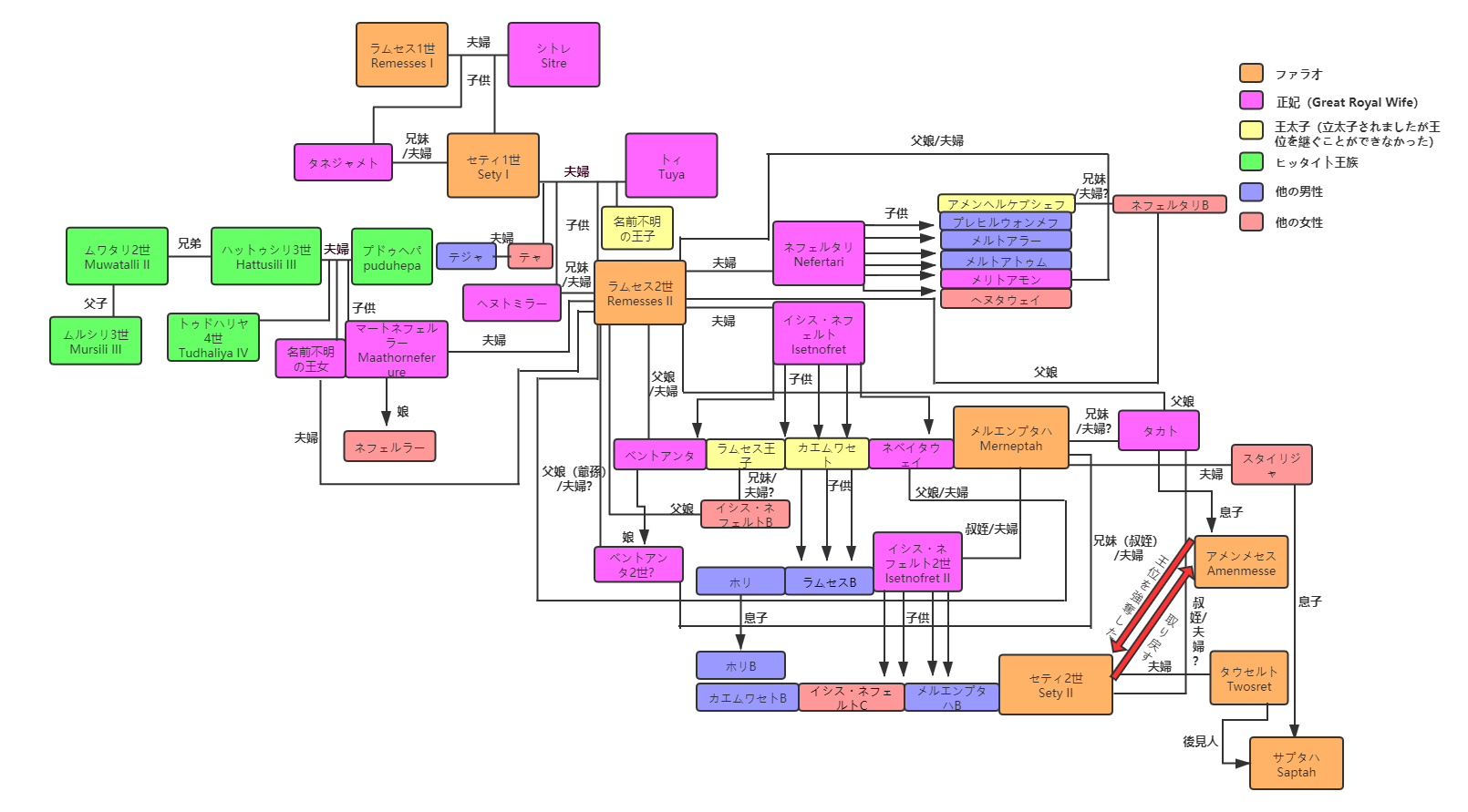 Family relationship tree of 19 dynasties in ancient Egypt